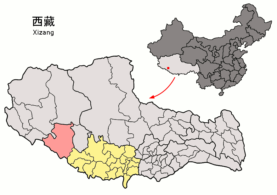 Location of Zhongba County (pink) and Xigazê Prefecture (yellow) within Tibet (Xizang) autonomous region of China